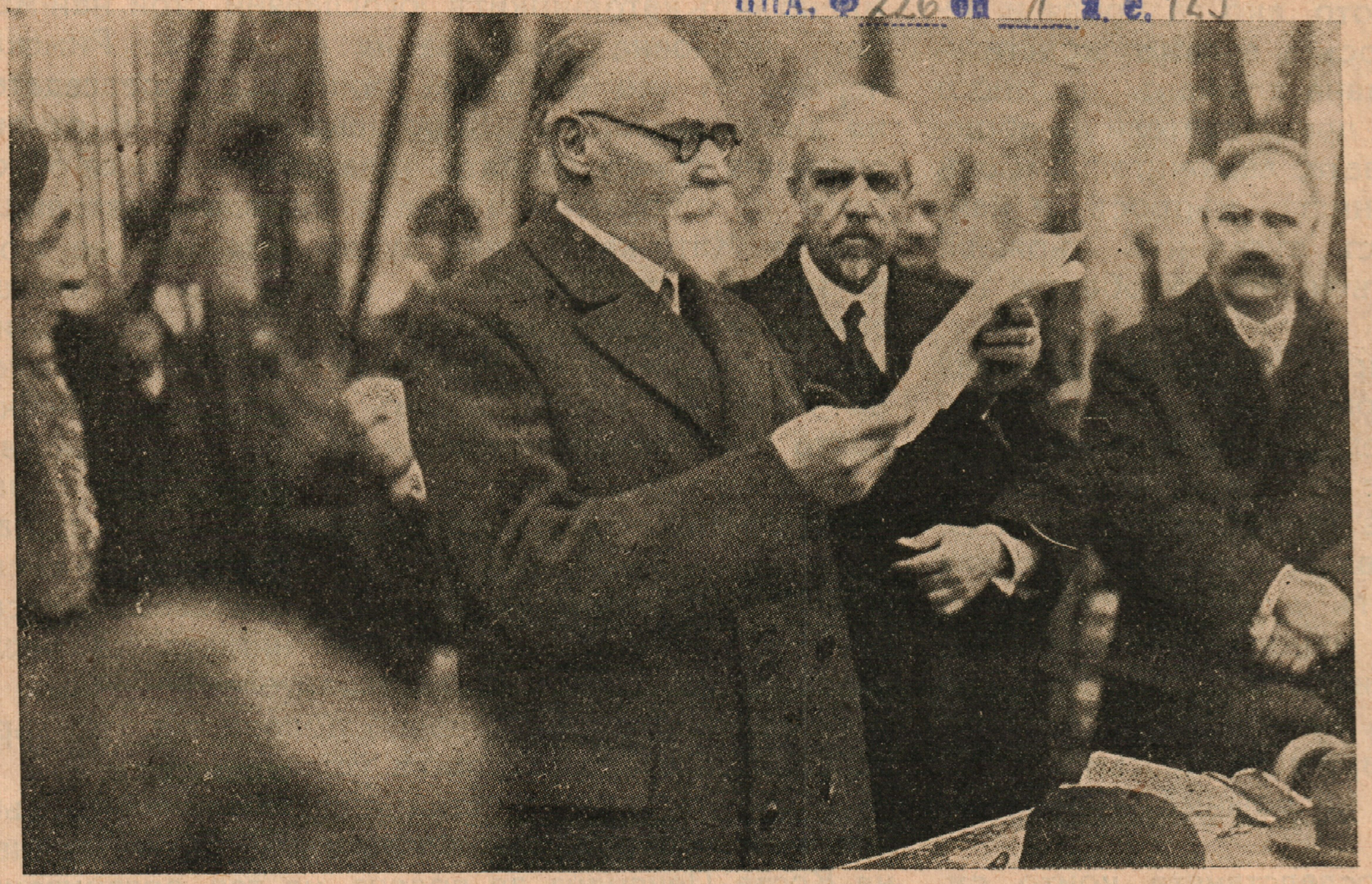 Photo from the Macedonian National Council, 1933 in Gorna Dzhumaya (Blagoevgrad).